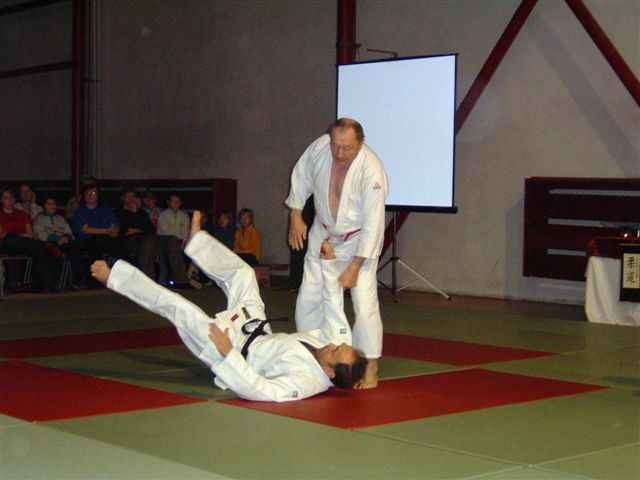 Vladimir Lorenz (8.dan) - legends of czechoslovak judo